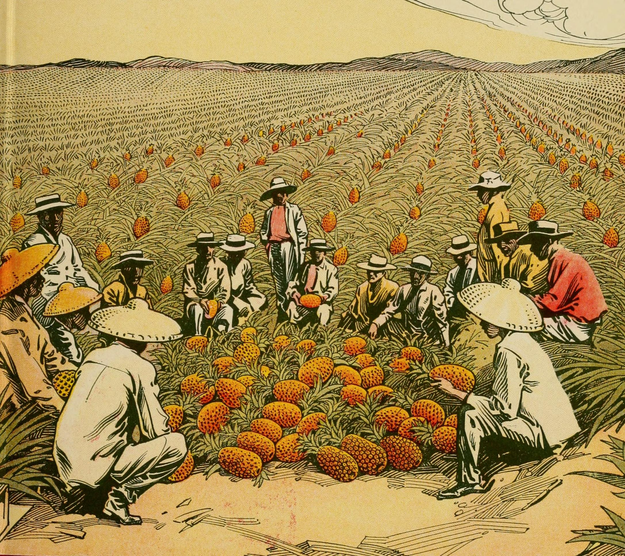 Workers in Pineapple plantation, 1914. Illustration from How We Serve Hawaiian Canned Pineapple.